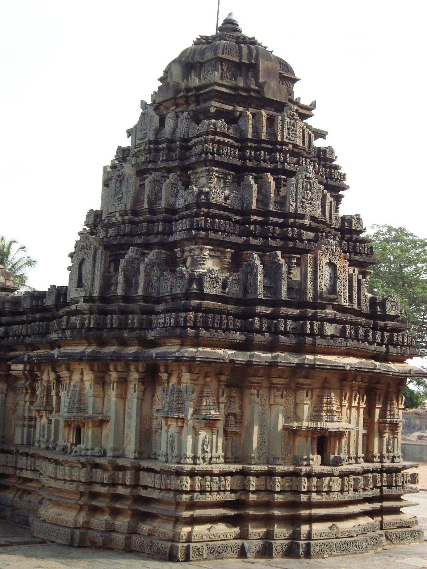 Chaudayyadanapura Mukteshwara temple, Haveri District, North Karnataka, India Source and Author : Manjunath Doddamani, Gajendragad / Hubli, Karnataka(India)